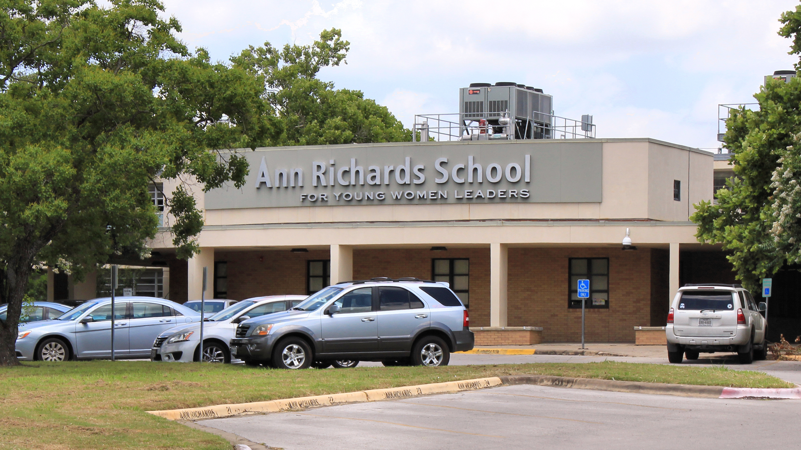 The Ann Richards School for Young Women Leaders in Austin, Texas, United States. The school was formerly known as Porter Junior High.